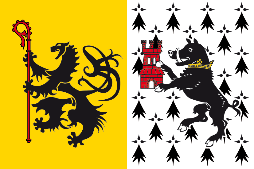 Flag of Saint-Pol-de-Léon (Brittany)